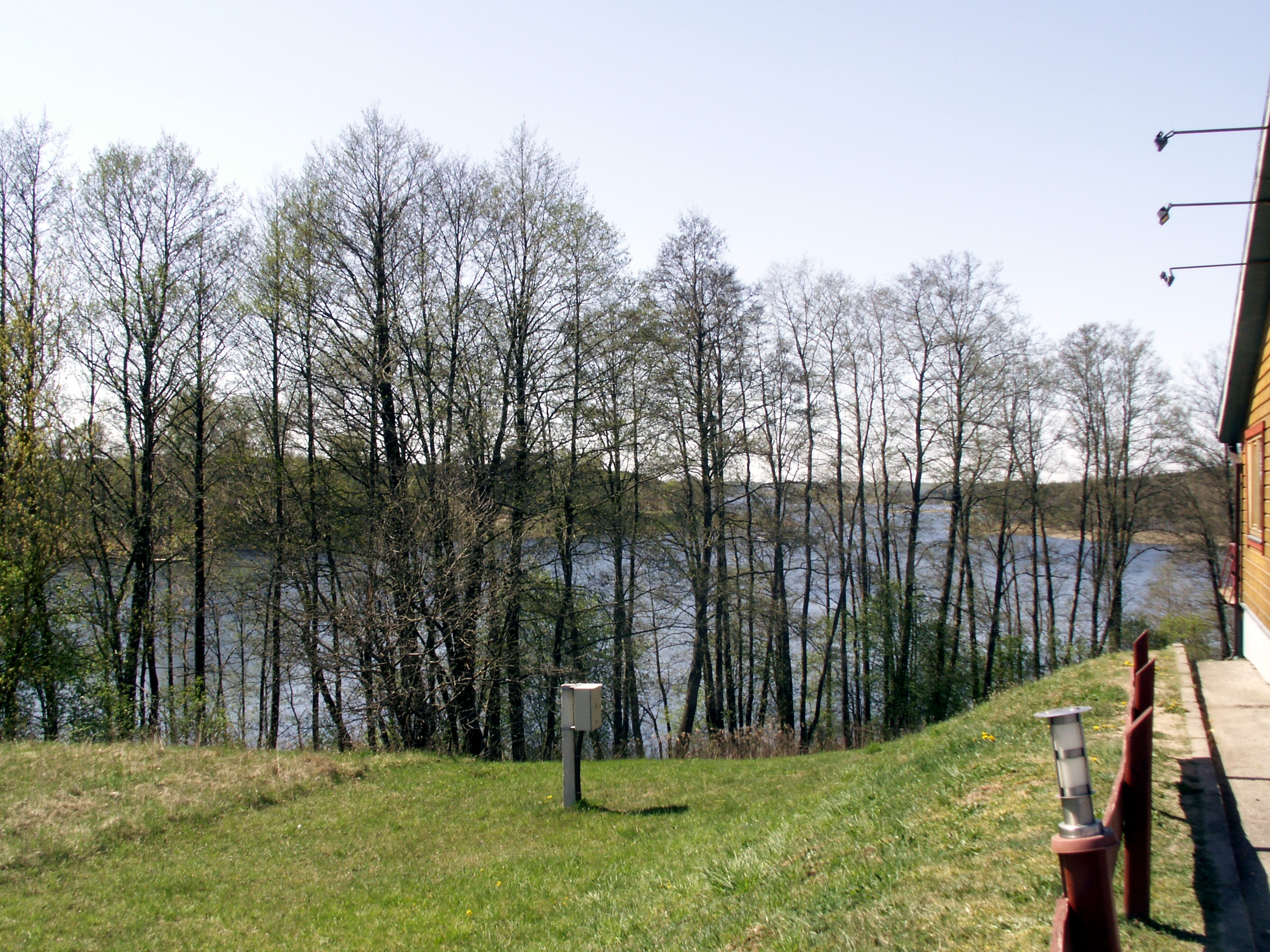 Lake Virintai, Molėtai district, Lithuania